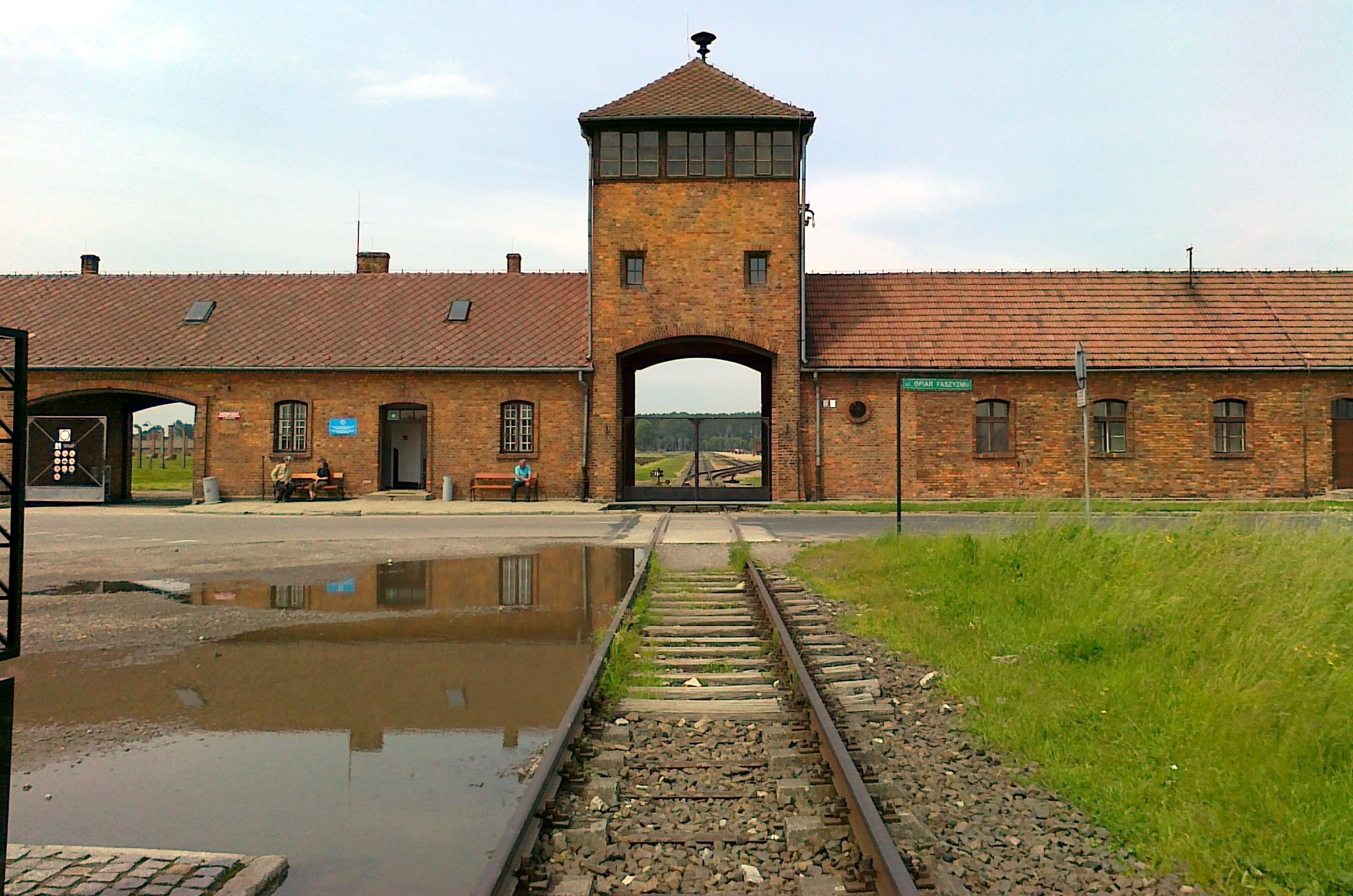 The gatehouse of Auschwitz II, also known as Auschwitz II-Birkenau, a Nazi German extermination camp in occupied Poland during the Holocaust. The building is preserved by the Auschwitz-Birkenau museum. This image shows the tracks from outside the camp leading through the gate to the third unloading ramp and the gas chambers. The first ramp was built in 1940 next to Auschwitz I, the main camp. The second ramp, the "Alte Judenrampe", was built in the Oświęcim freight station between Auschwitz I and Auschwitz II, and was used to receive mass transports of Jews and others until May 1944, when the third ramp was completed: "The third ramp was built from 1943 inside the Birkenau camp, and went into operation in May 1944 in connection with the anticipated arrival of transports of Hungarian Jews. The railroad spur along this ramp ran as far as gas chambers and crematoria II and III. Aside from the 430 thousand Hungarian Jews, 67 thousand Jews from the Łódź ghetto and some of the transports from the ghetto in Terezin and from Slovakia were unloaded at this ramp. From this point on, mass selections of Jews took place inside the camp, before the eyes of thousands of prisoners. Transports of Poles from Warsaw during the Uprising there, sent to Auschwitz by way of the transit camp in Pruszków, were also unloaded here" (Auschwitz-Birkenaum museum).